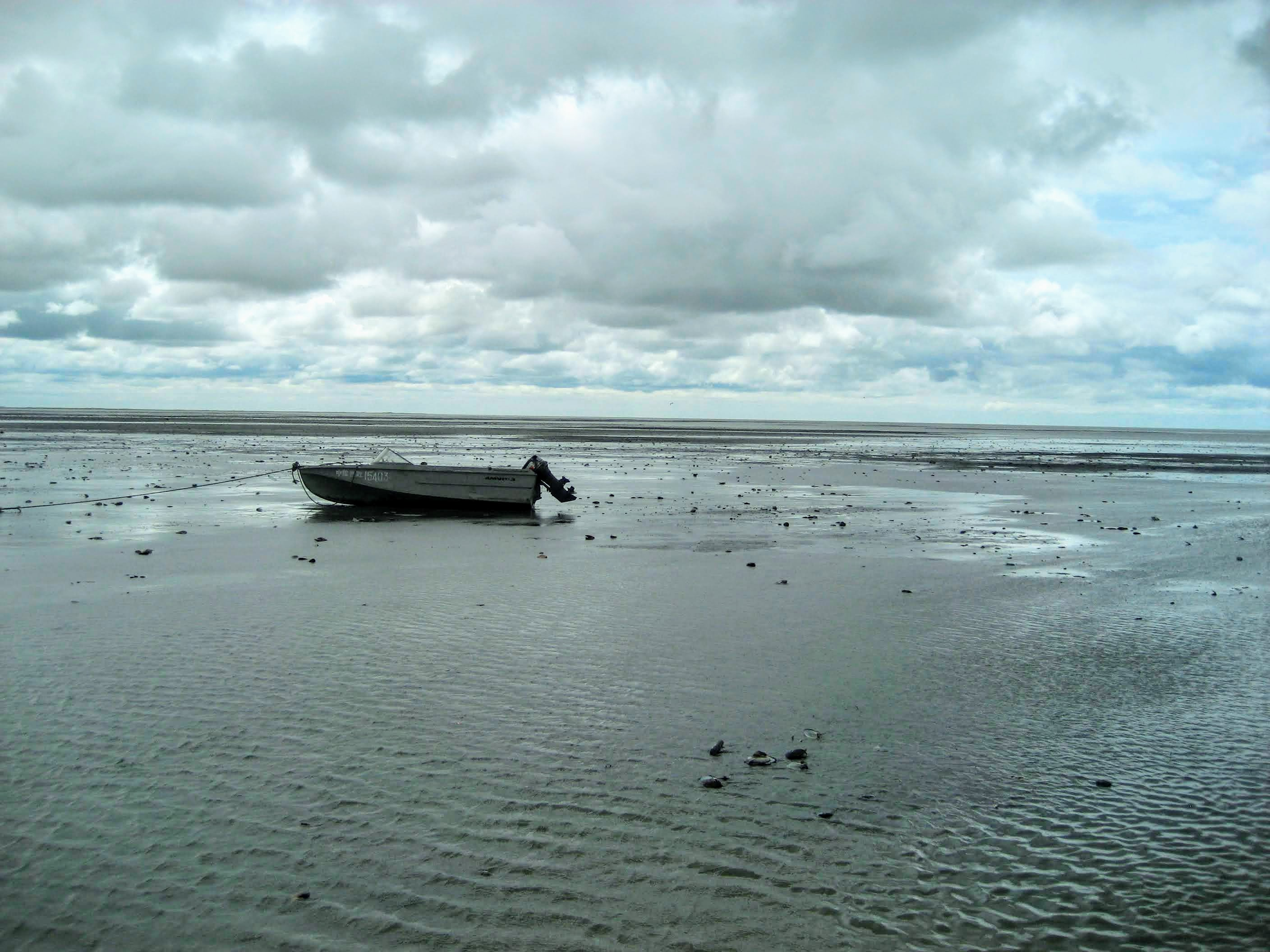 A boat on a dried-up section of Lake Hulan